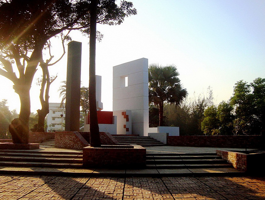 Language Movement monument of CUET uploader:Rahat